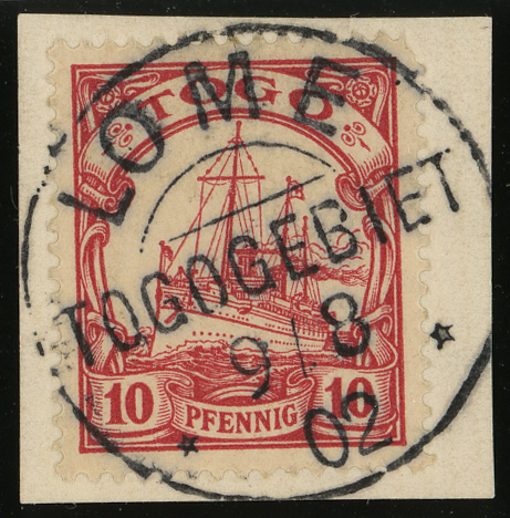 Stamp of German Togo,10 pfg issue 1900, cancelled LOME TOGOGEBIET in August 1902.